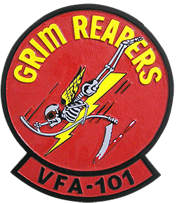 Patch of the U.S. Navy Strike Fighter Squadron 101 (VFA-101) "Grim Reapers", established on 1 May 2012.